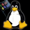 Linux-for-workgroups-boot logo of the Linux kernel 3.11